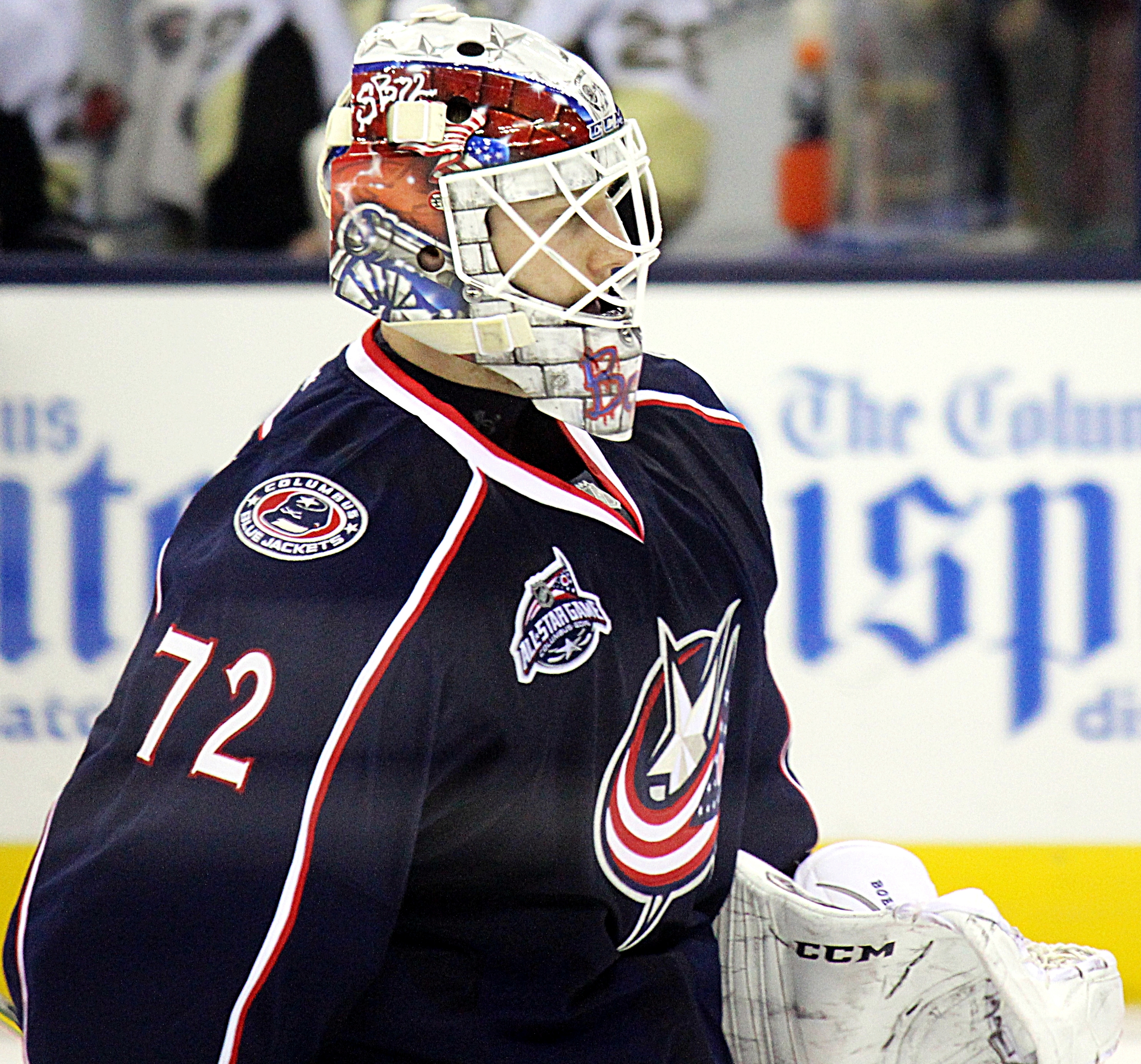 Columbus Blue Jackets goaltender Sergei Bobrovsky during a game against the Pittsburgh Penguins, December 13, 2014, at Nationwide Arena in Columbus, OH.